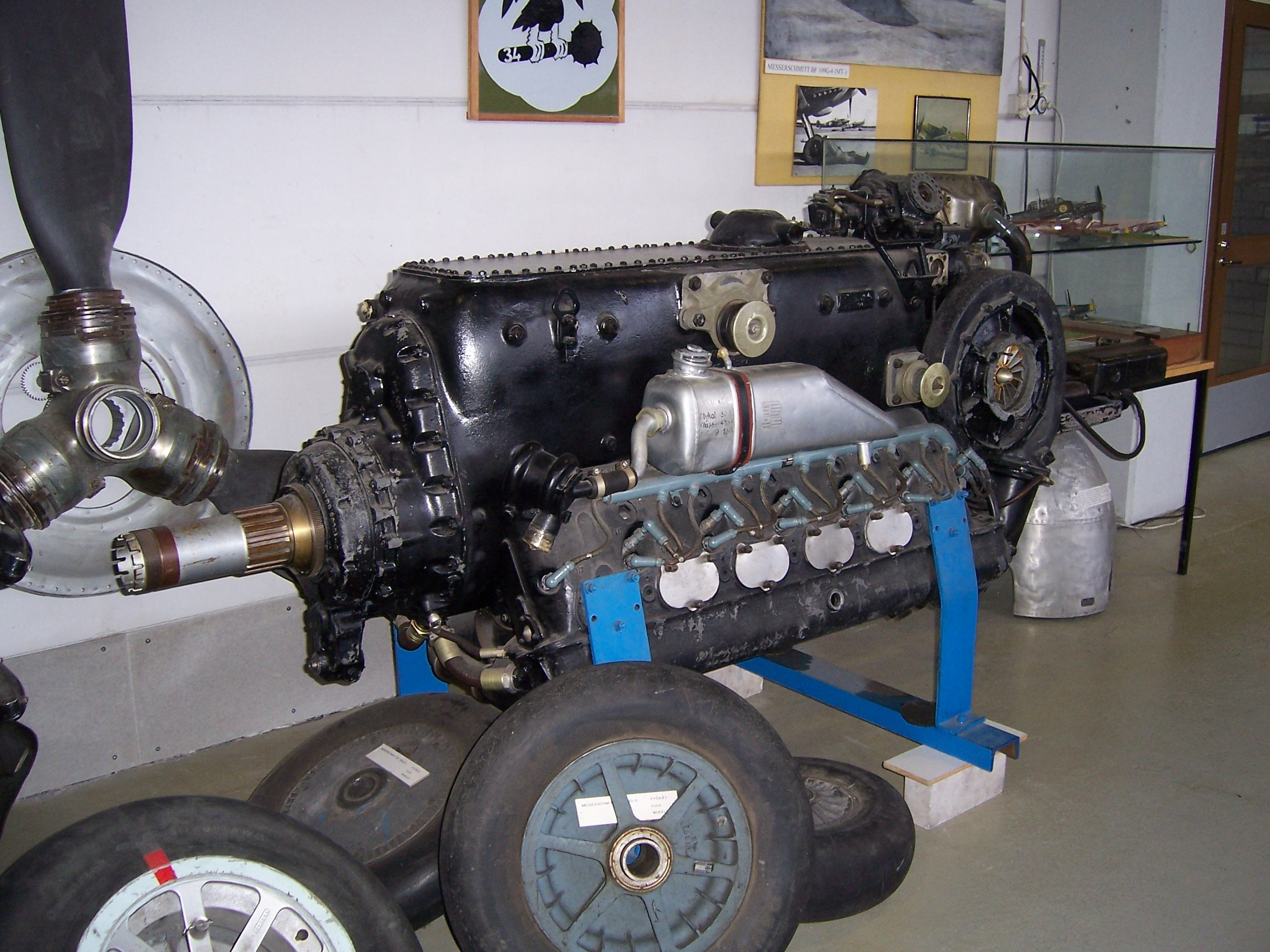 DB 605 in Finnish Aviation Museum